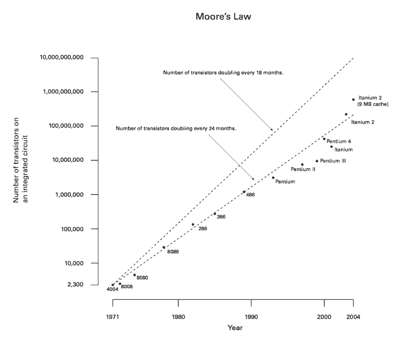 Moore's Law v Intel processor transistor counts.